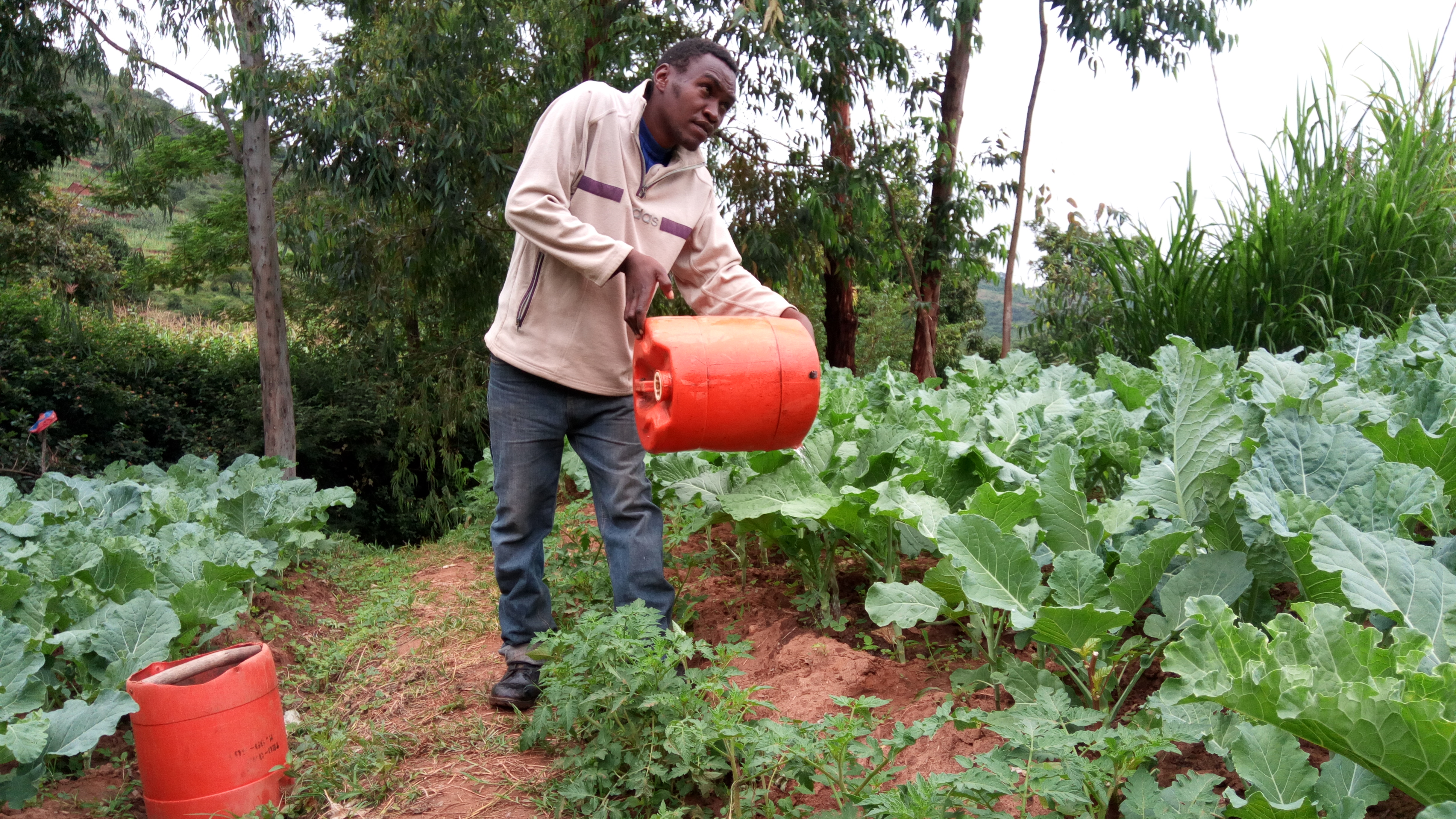 Man irrigating kales in Makueni, Kenya This is an image of "African people at work" from Kenya